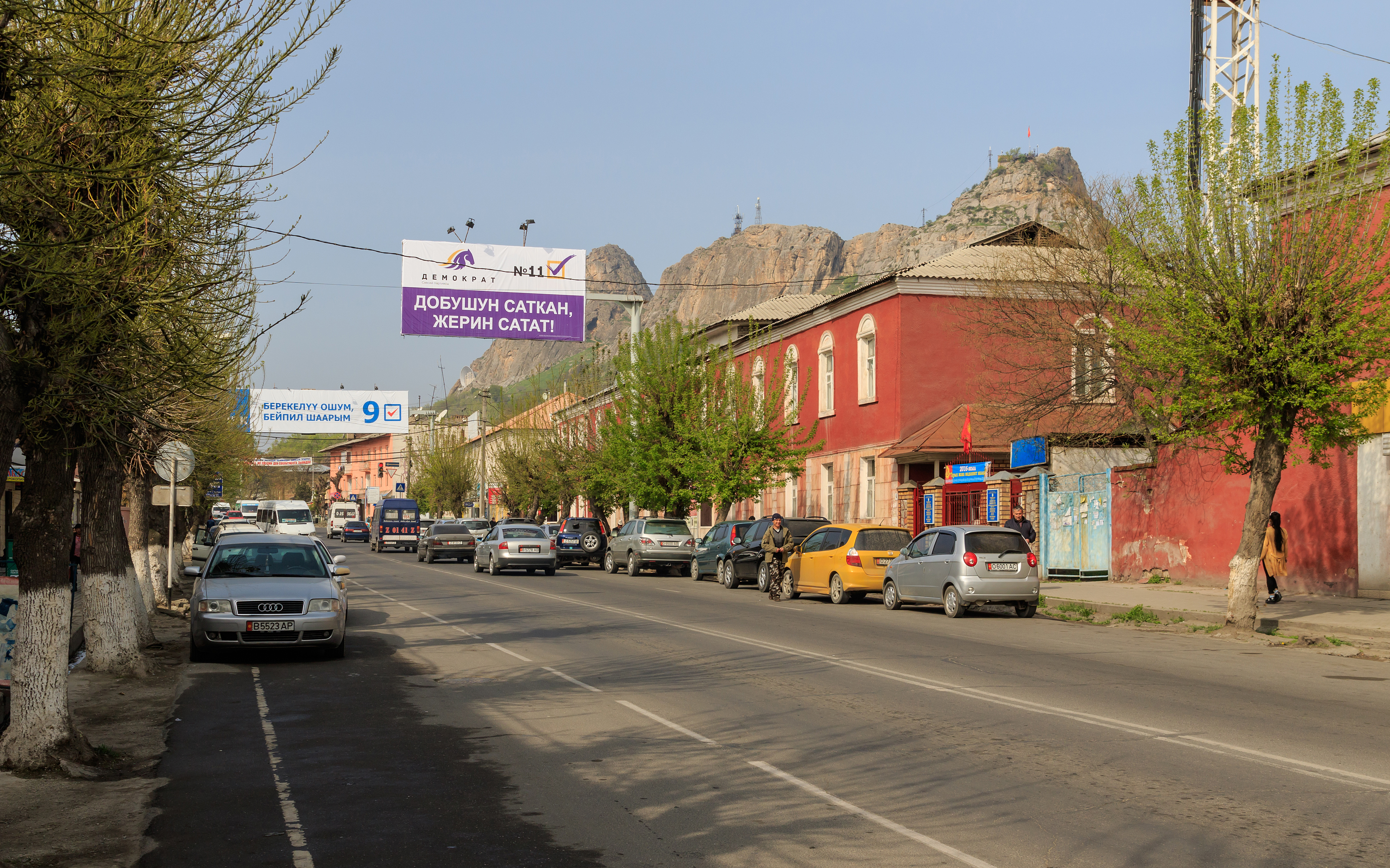 Gapar Aitiev Street in Osh, Kyrgyzstan